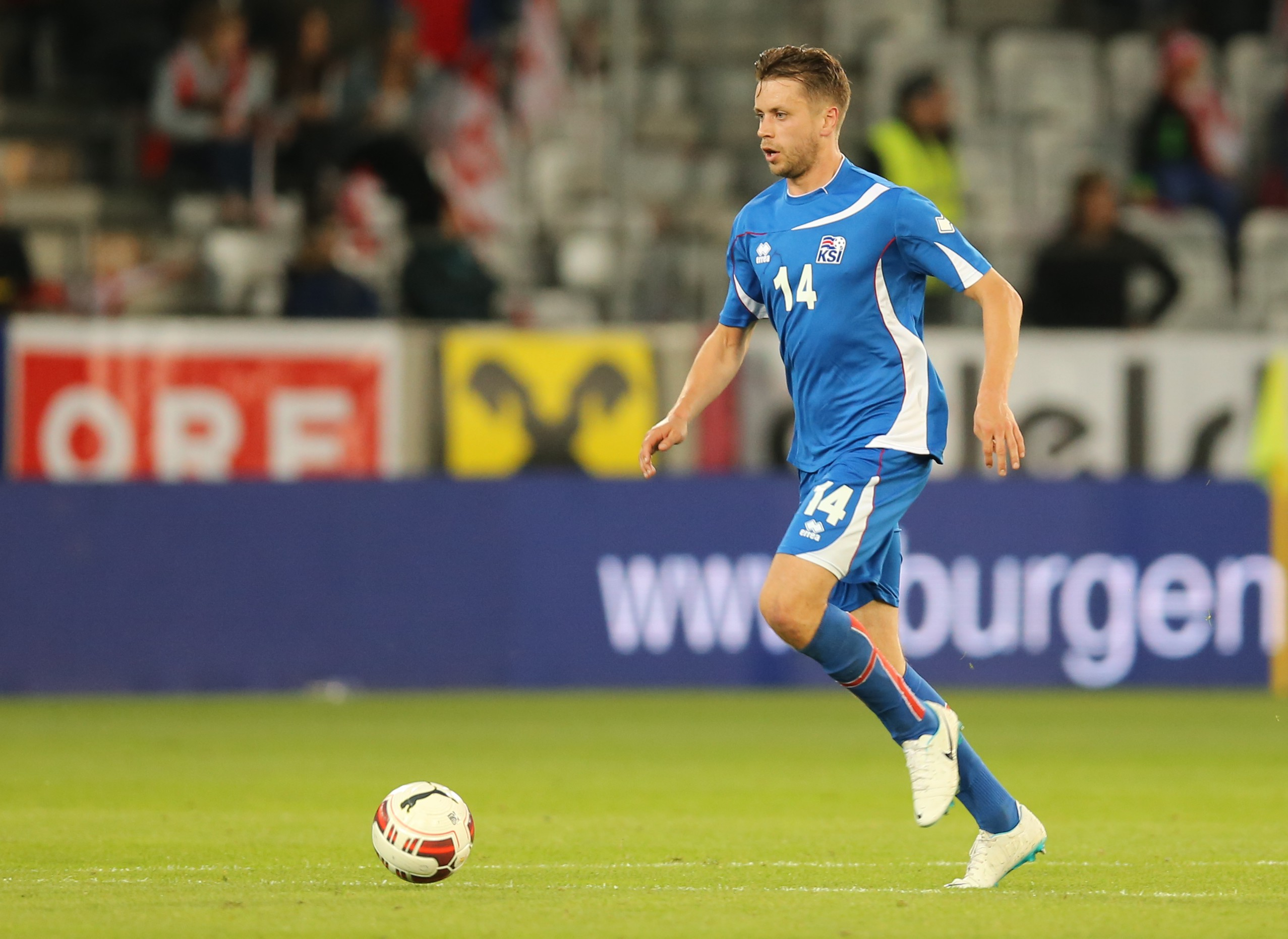 Austria - Iceland football match in Innsbruck, Austria on 2014-05-30. Austria in red, Iceland in blue.